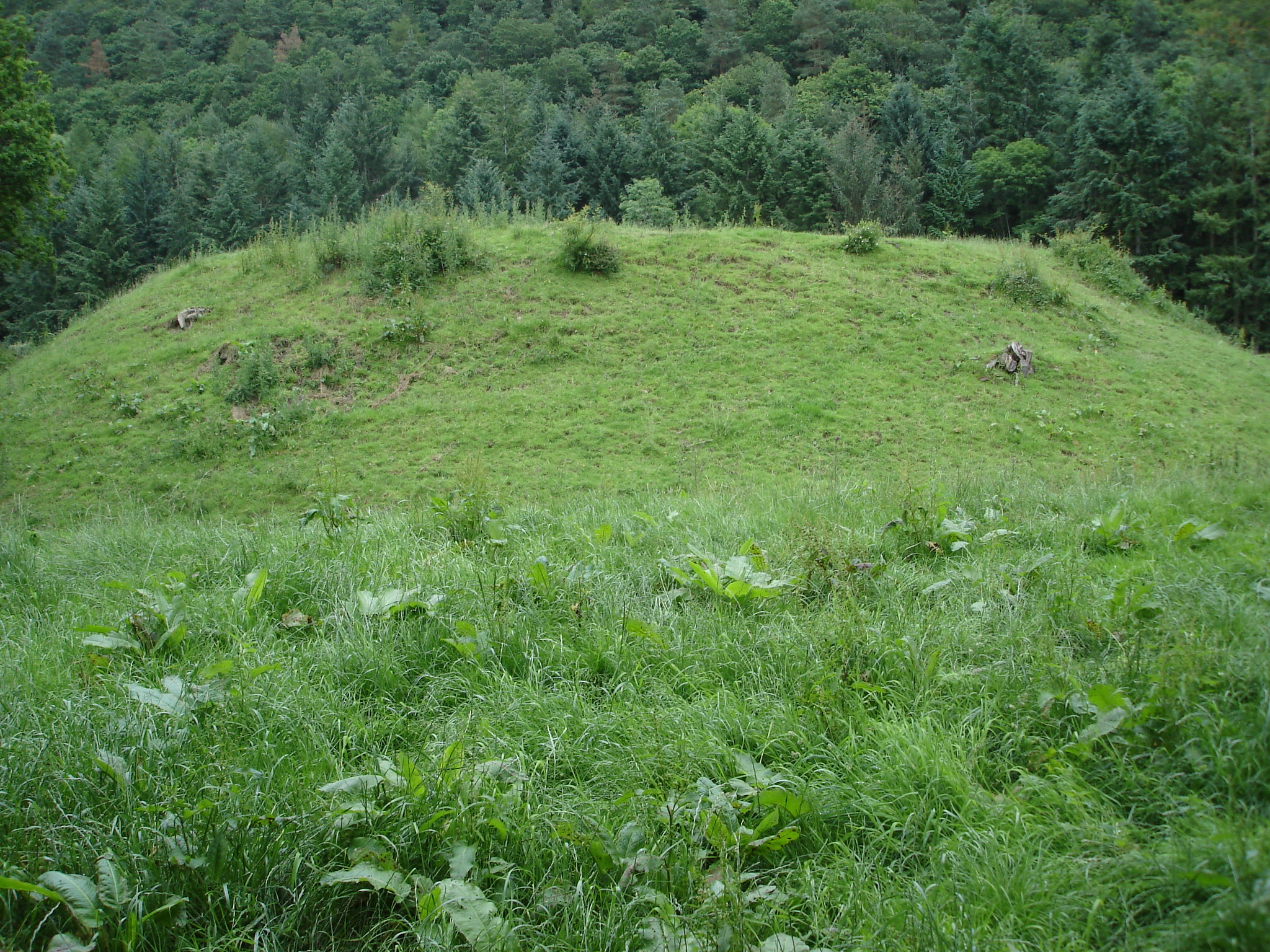 Sycharth showing motte